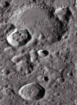 Faraday lunar crater as seen from Earth with satellite craters labeled